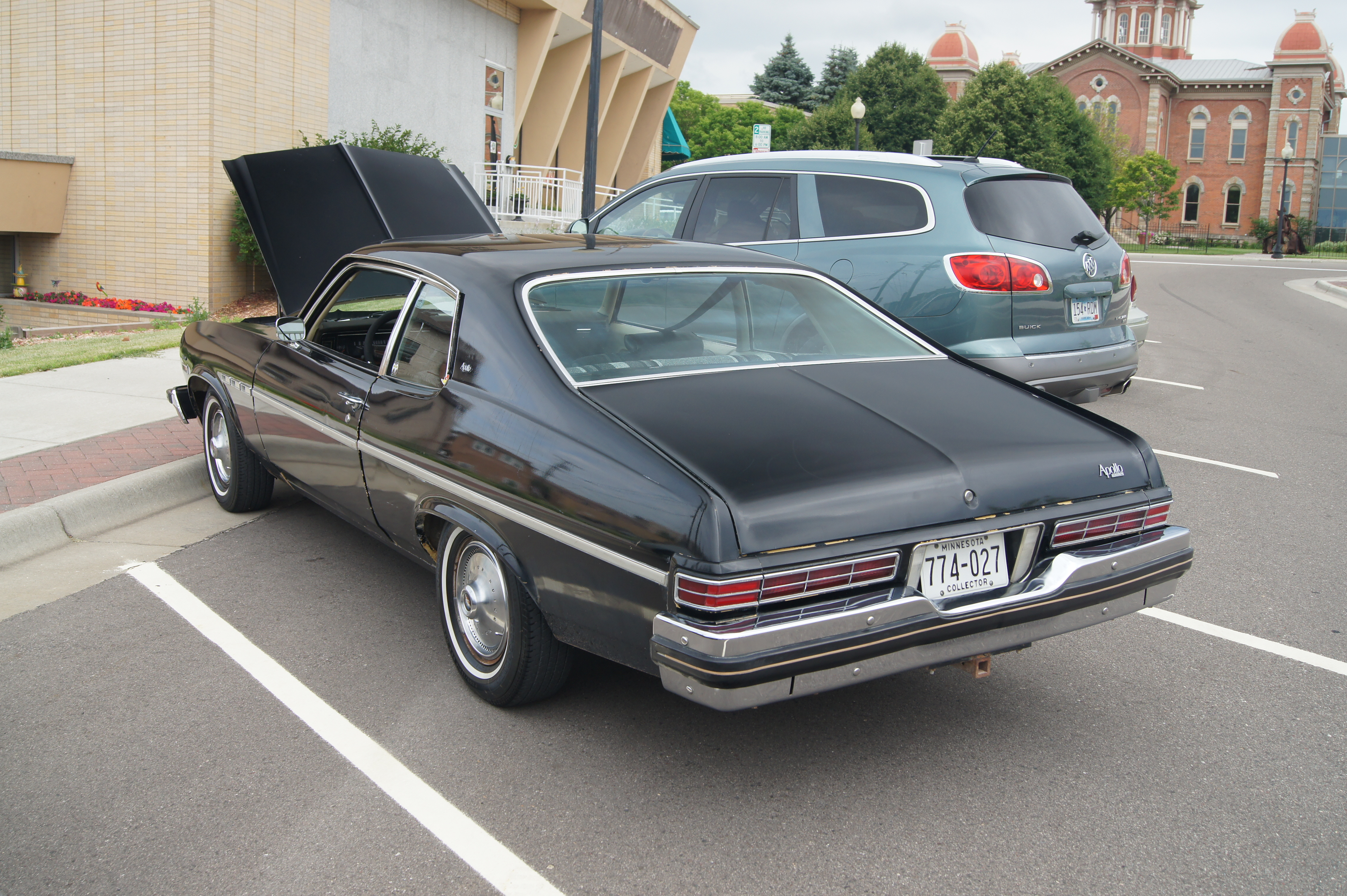 HISTORIC DOWNTOWN HASTINGS CRUISE-IN & CLASSIC CAR SHOW July 11, 2015 Click here for more car pictures at my Flickr site.